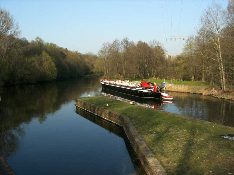 Finowkanal - Drahthammer sluice (km 73,9) Unterhafen (nether harbour)